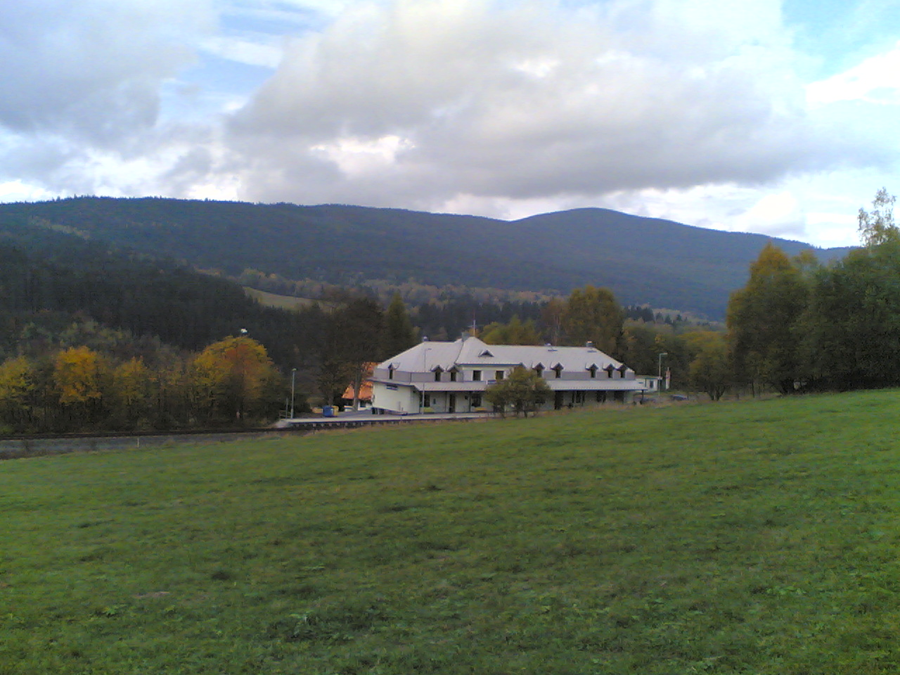 Reconstructed railway station Železná Ruda město in Czech town Železná Ruda.